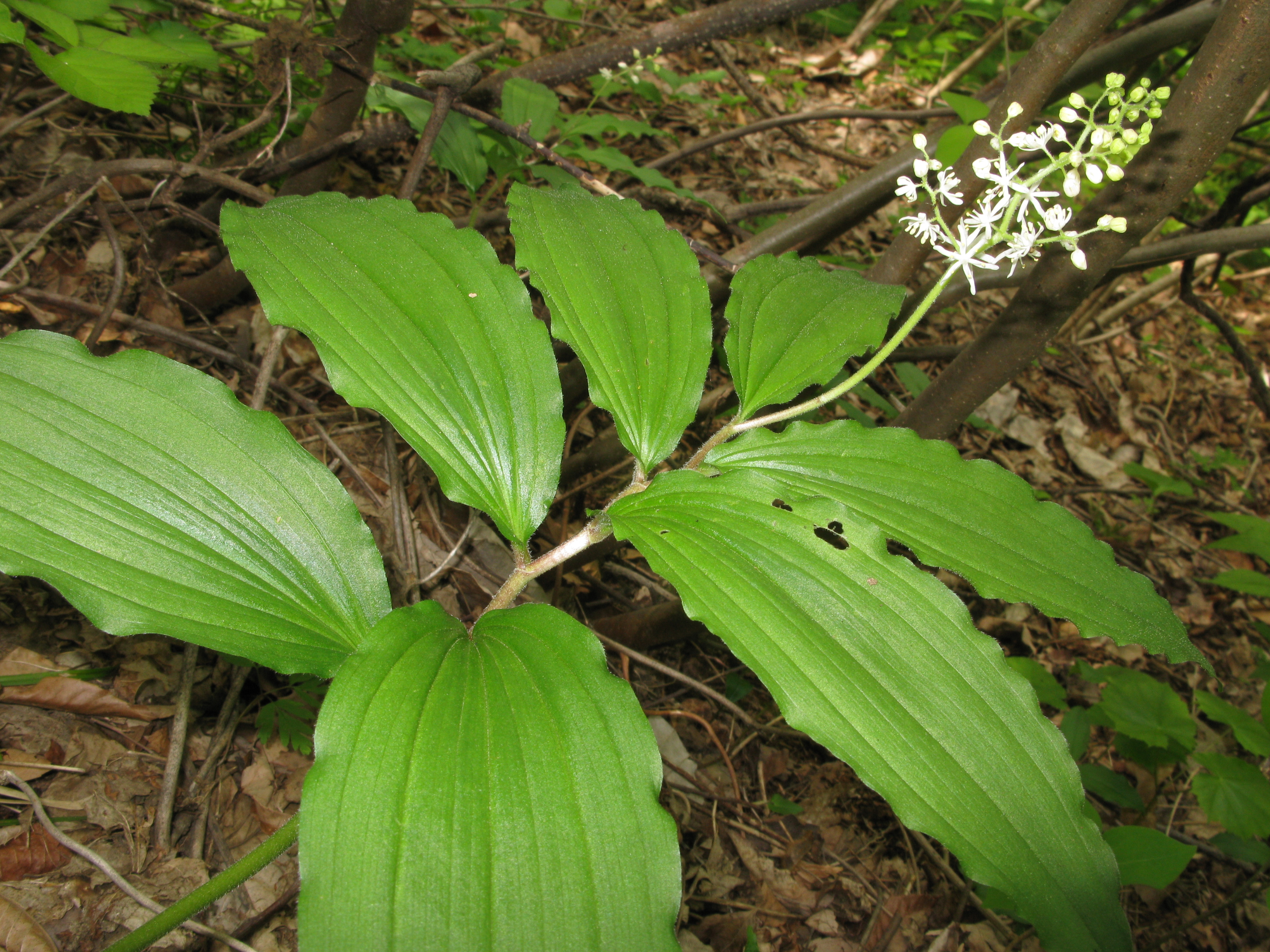 Maianthemum japonicum, Fukushima city, Fukushima pref., Japan